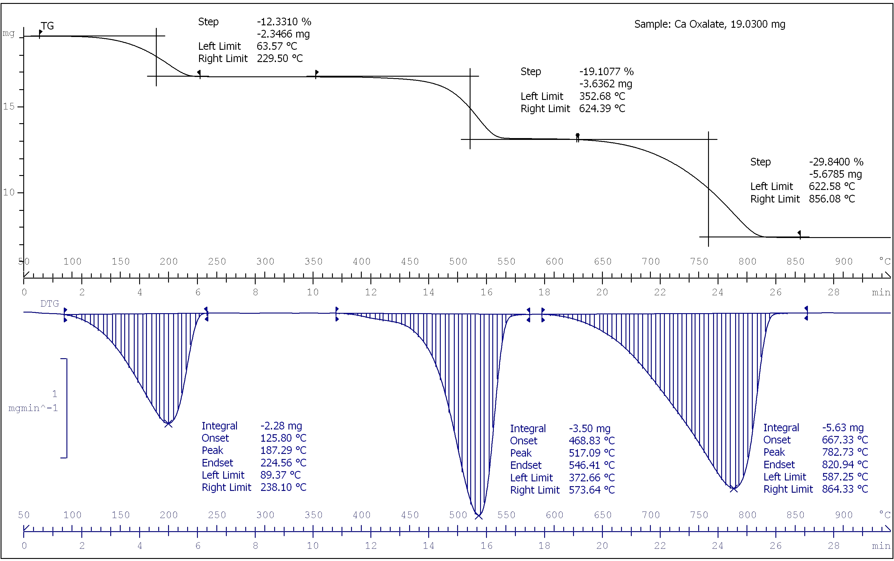 Thermogravimetric analysis of Ca Oxalate